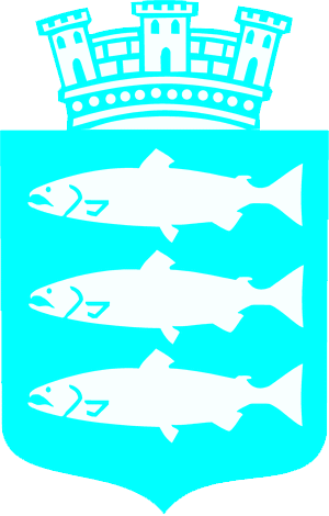 Coat of arms for the municipality of Mandal (kommune), Norway. Converted to png and made background transparent.